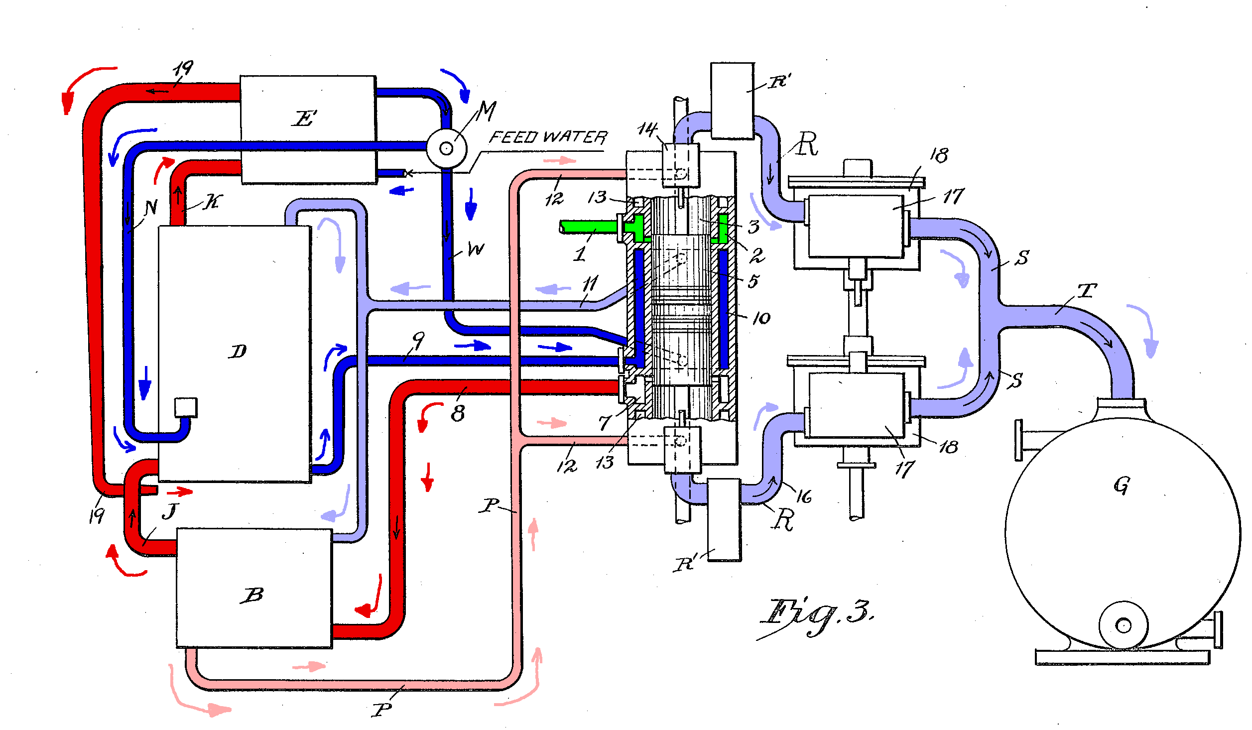 Internal combustion engine